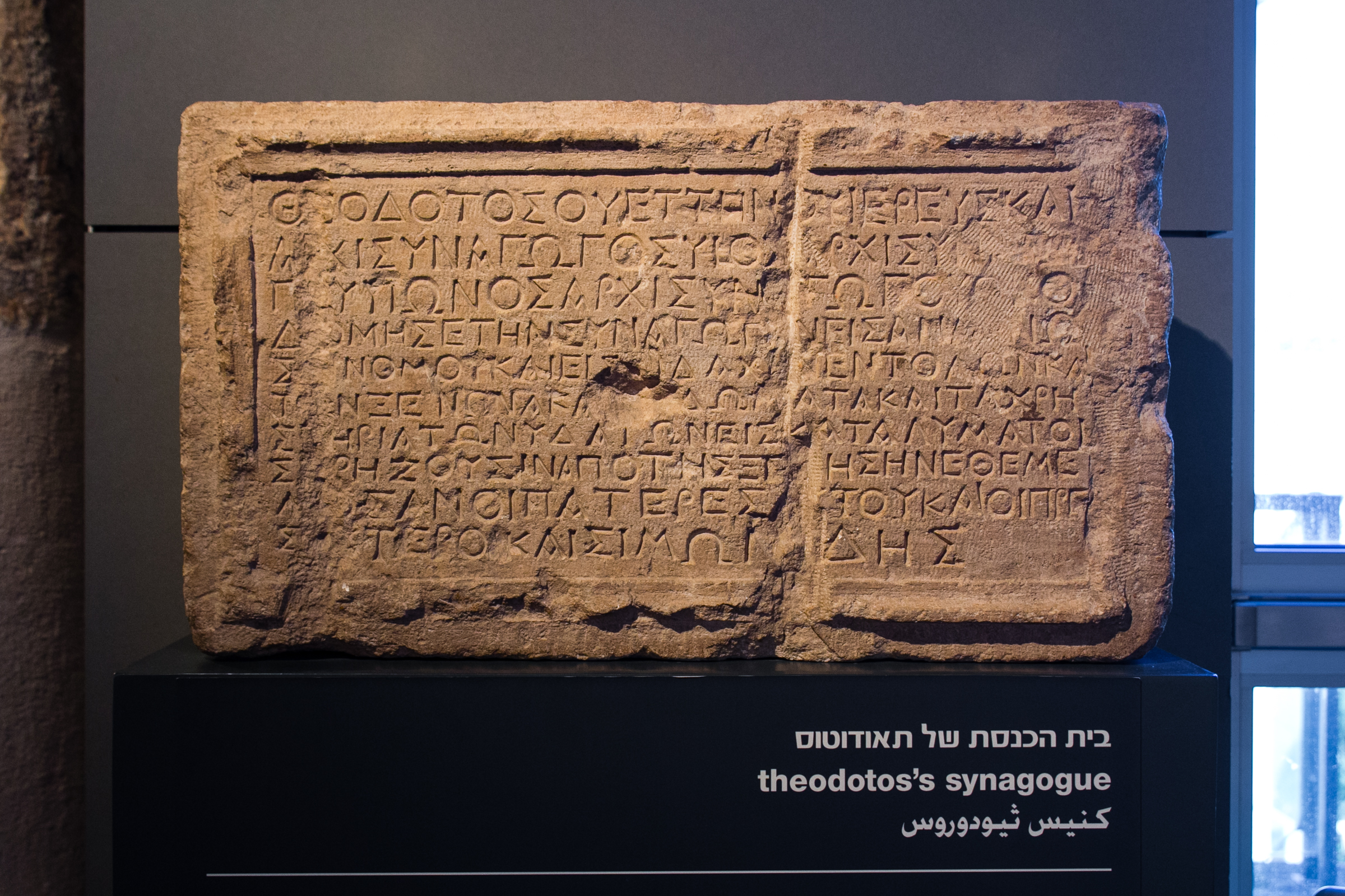 The Theodotus inscription on display at the Israel Museum in Jerusalem